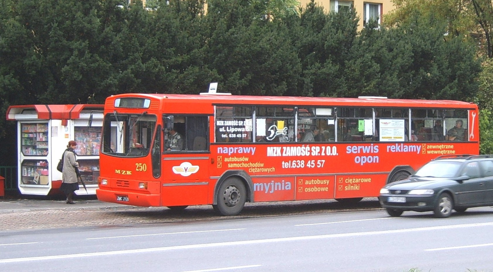 Jelcz 120M bus (#250) in Zamość, Poland. Built 1996, MZK Zamość operator.